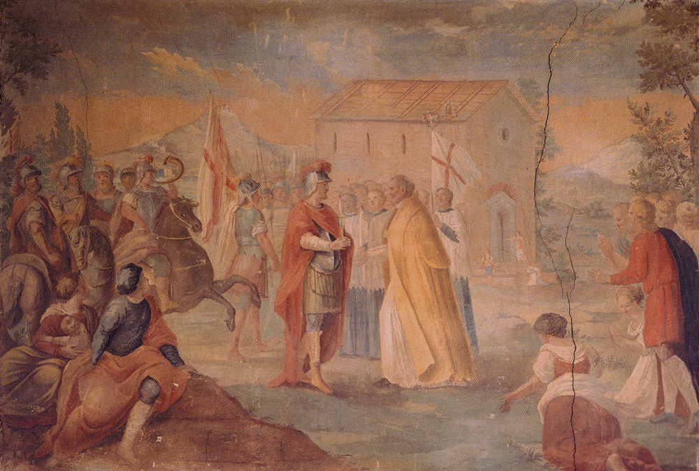 The count Guido Guerra of Guidi Family gives the relic of Virgin Mary Milk to the San Lorenzo Church in Montevarchi on 1270